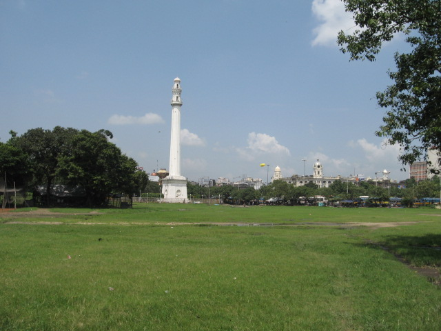 Picture of Shaheed Minar at Kolkata